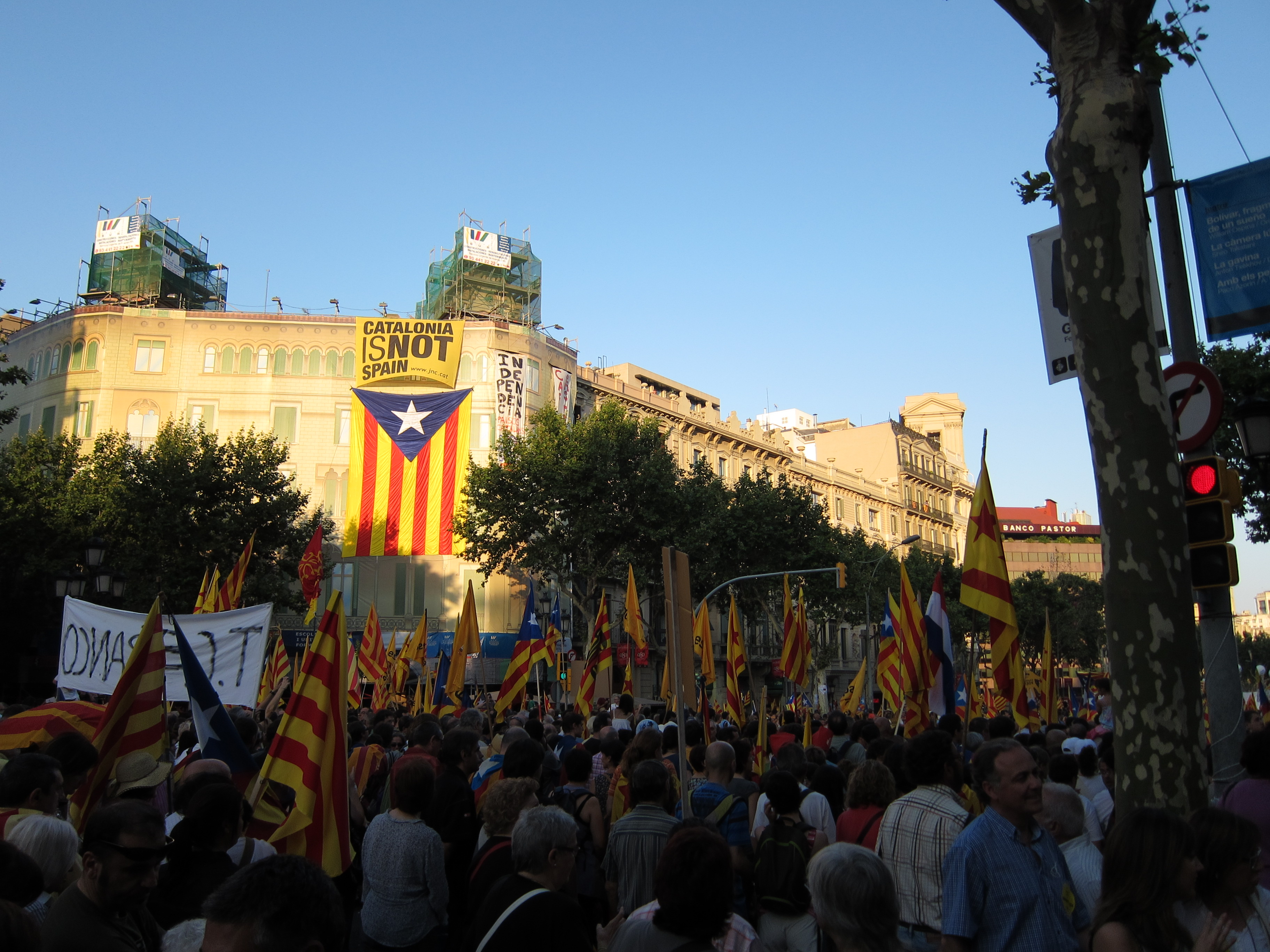 Demonstration "Som una nació. Nosaltres decidim"